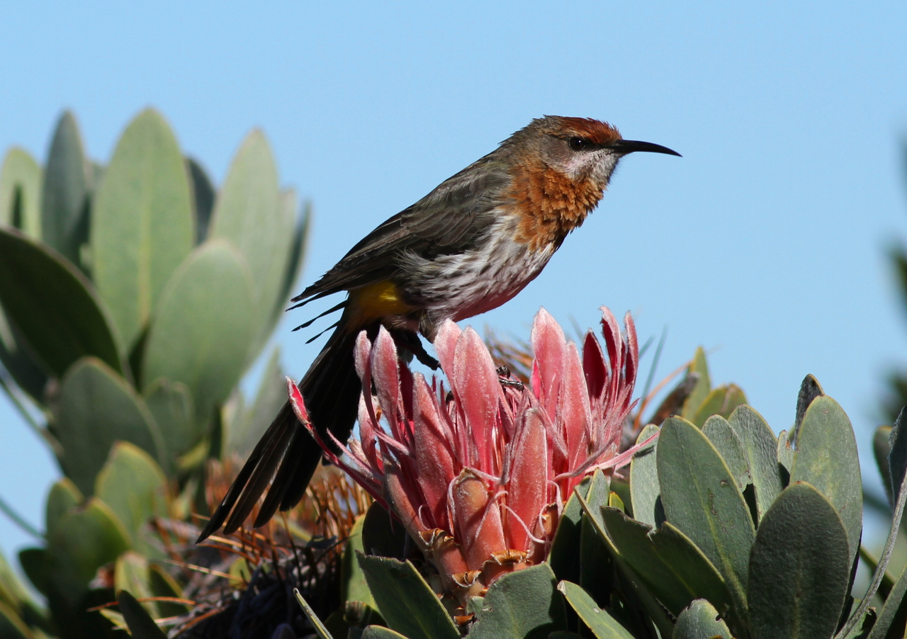 Gurney's Sugarbird, Promerops gurneyi at Marakele National Park